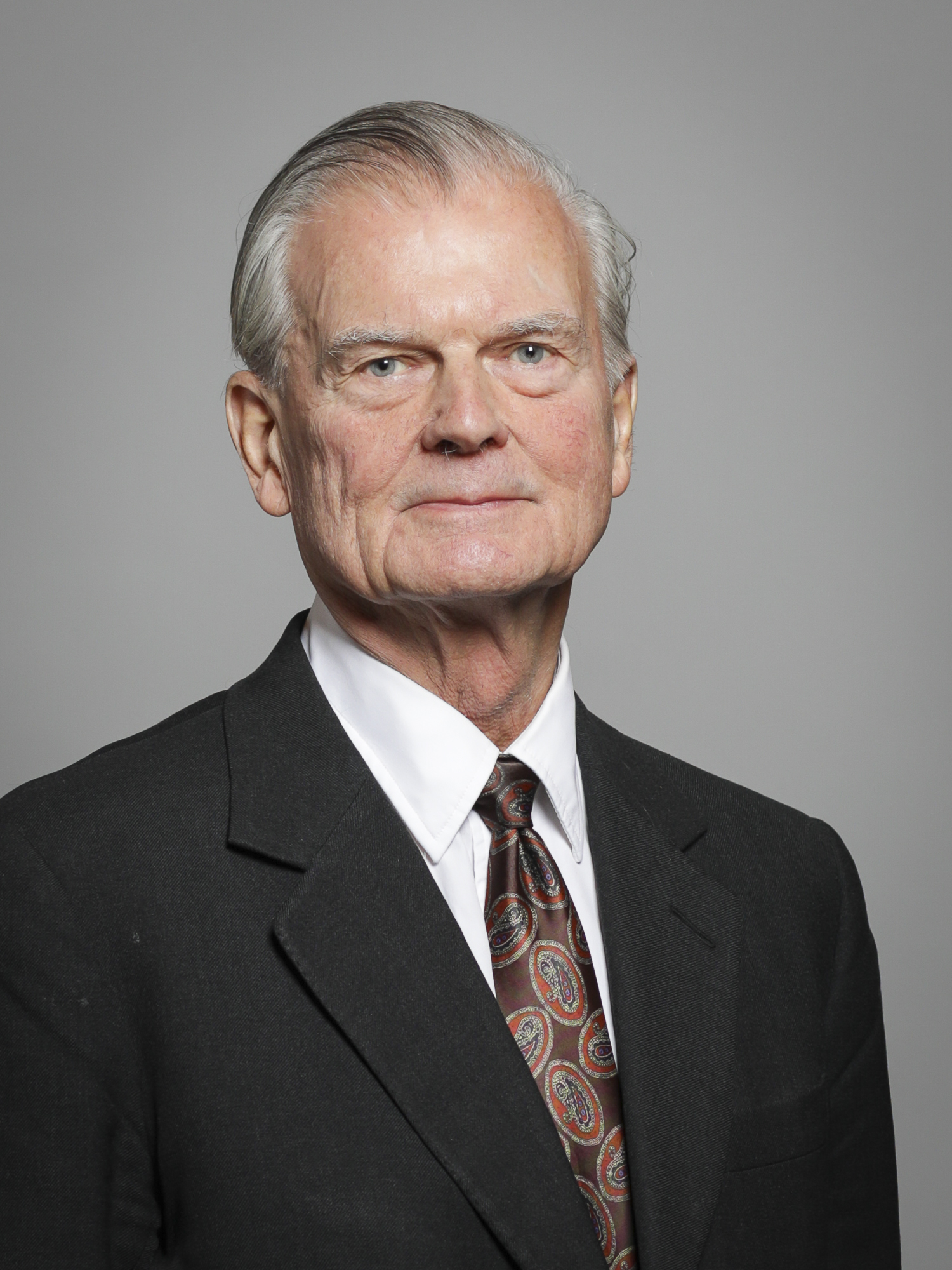 Official portrait of Lord Freeman 3×4 portrait of Lord Freeman